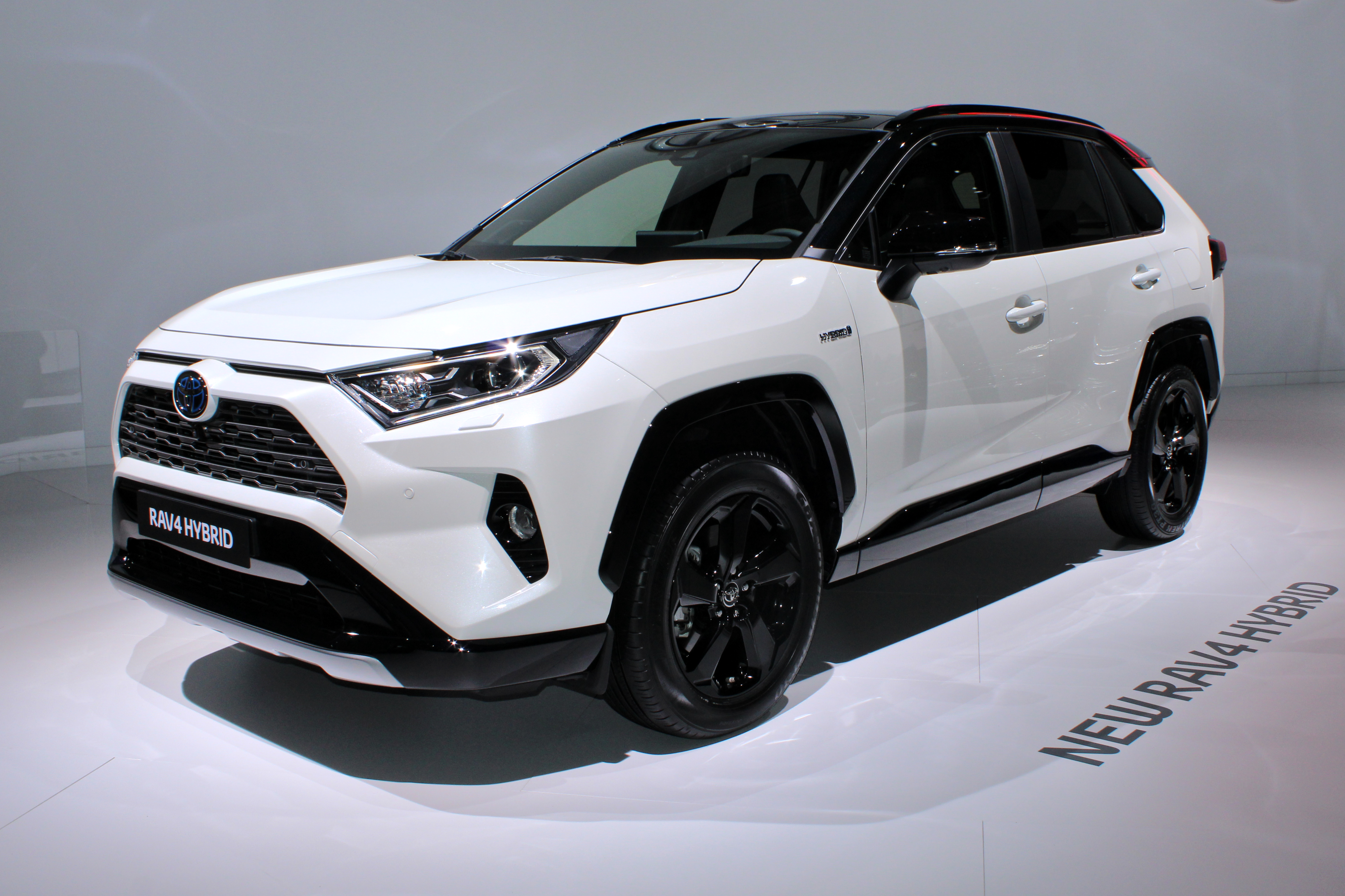 Toyota RAV4 Hybrid at Paris Motor Show 2018